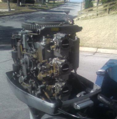 1979 Evinrude 70, airbox removed